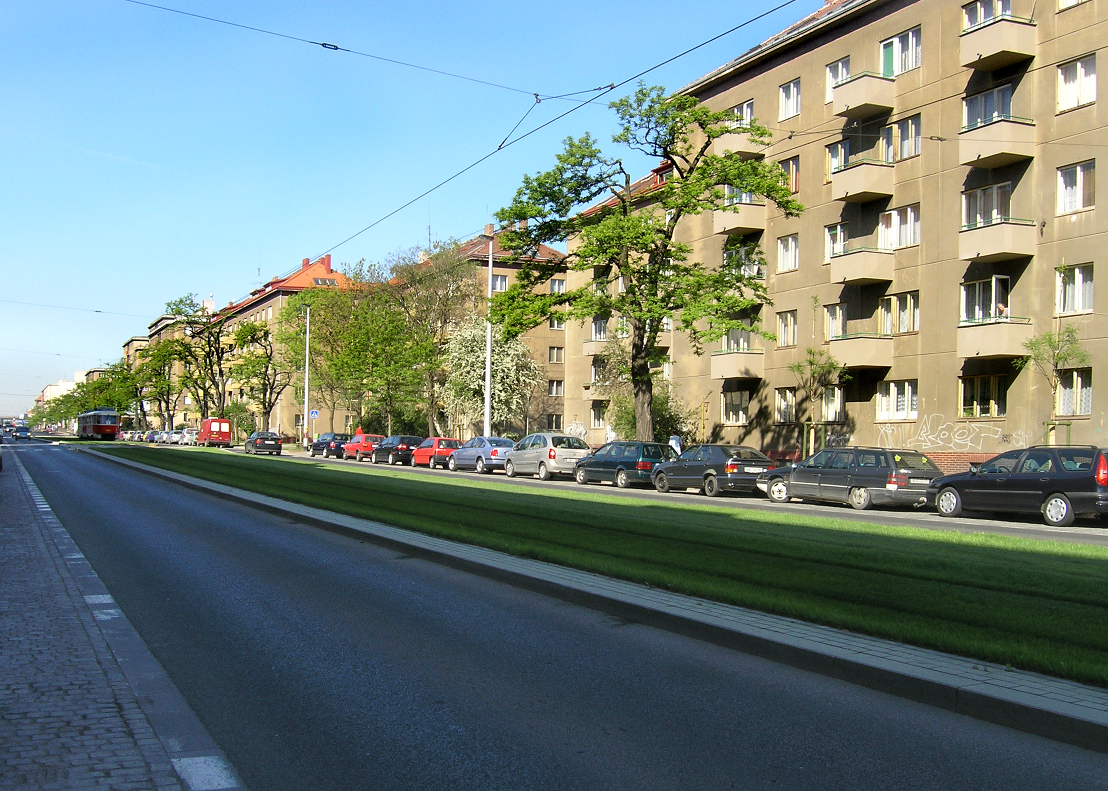 Sokolovská street at Libeň, Prague